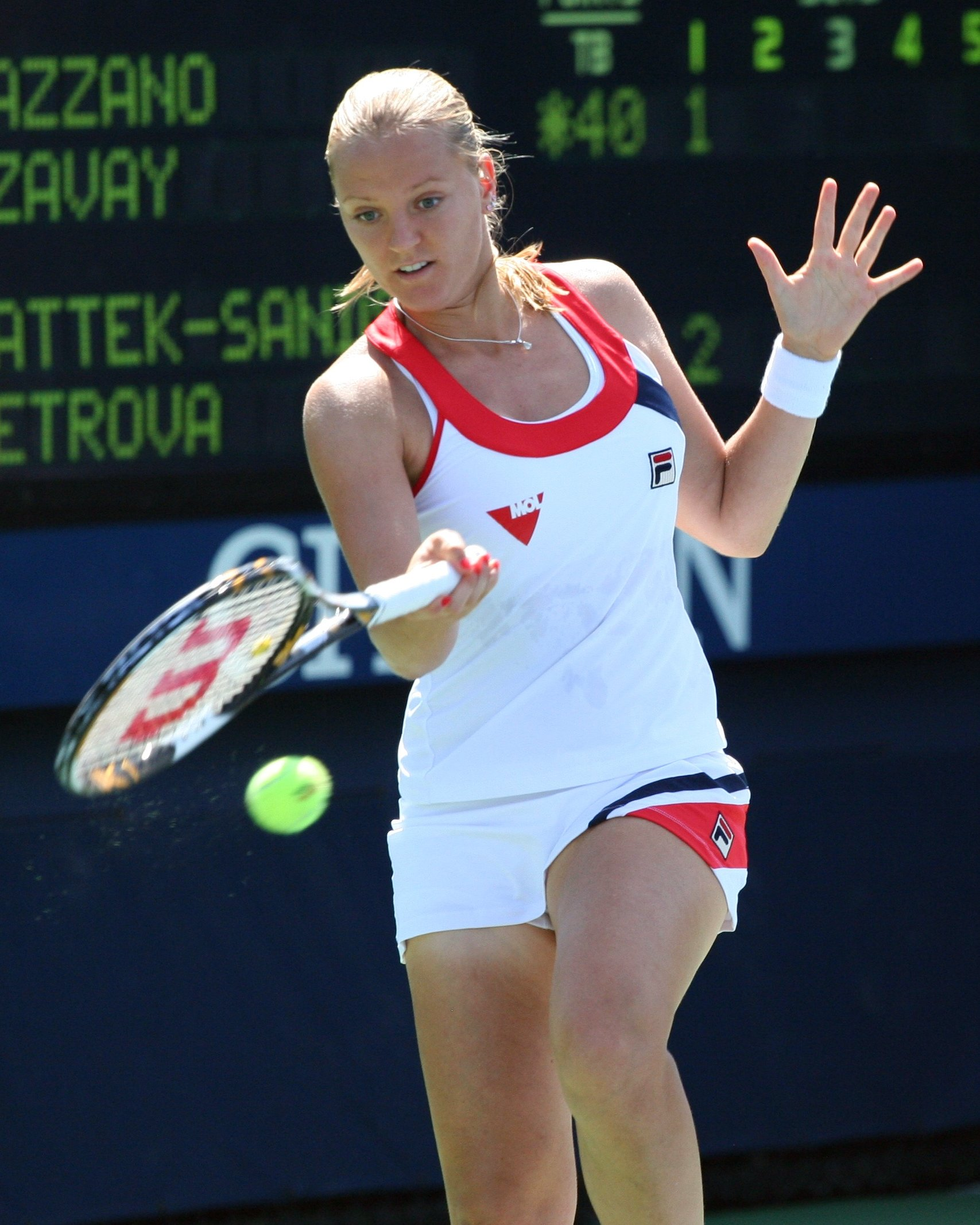 U.S. Open Friday, Sept. 4, 2009